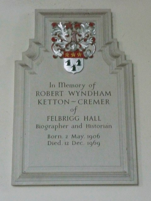 Memorial to Robert Wyndham Ketton-Cremer, St Margaret's Church, Felbrigg Robert Wyndham Ketton-Cremer was the last private owner of Felbrigg Hall and estate. The Ketton-Cremer family had acquired the hall in a run-down state in 1923, and restored it to its former glory. Robert was a batchelor, and left the hall and estate to the National Trust.